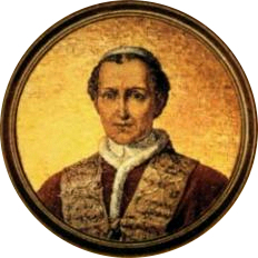 Portrait of Pope Leo XII in the Basilica of Saint Paul Outside the Walls, Rome